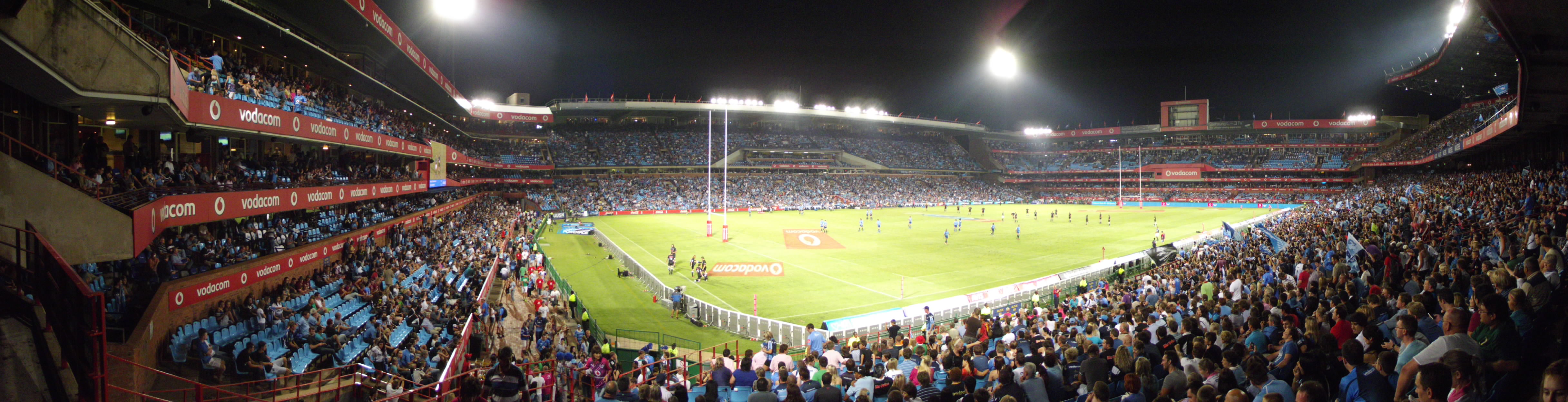 Beginning of the second half of the Bulls vs Sharks Game 24/02/2012 of the 2012 Season of the Super XV.